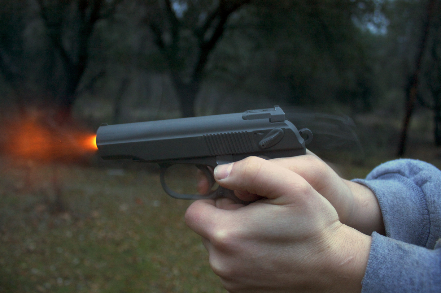 Makarov PM burning Excess powder after extraction and ejection of previous cartridge.